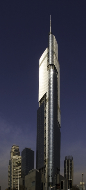 The Nanjing Greenland Financial Center 南京紫峰大厦 in Nanjing, China was completed in April 2010. Marshall Strabala designed the building while he was Associate Partner at Skidmore Owings & Merrill, LLP. (Photo credit: Marshall Strabala)